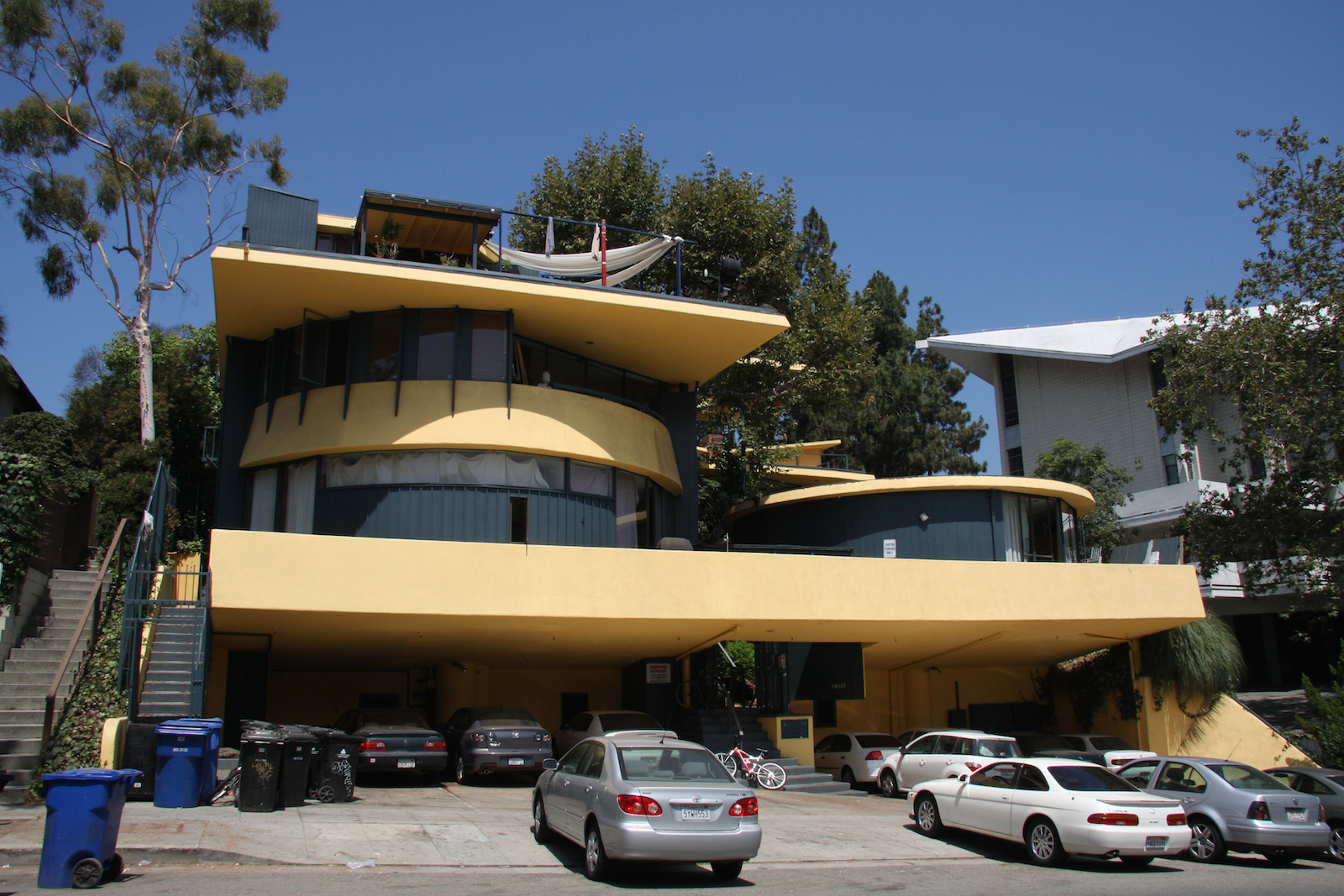 John Lautner's Sheats Apartments (L'Horizon)